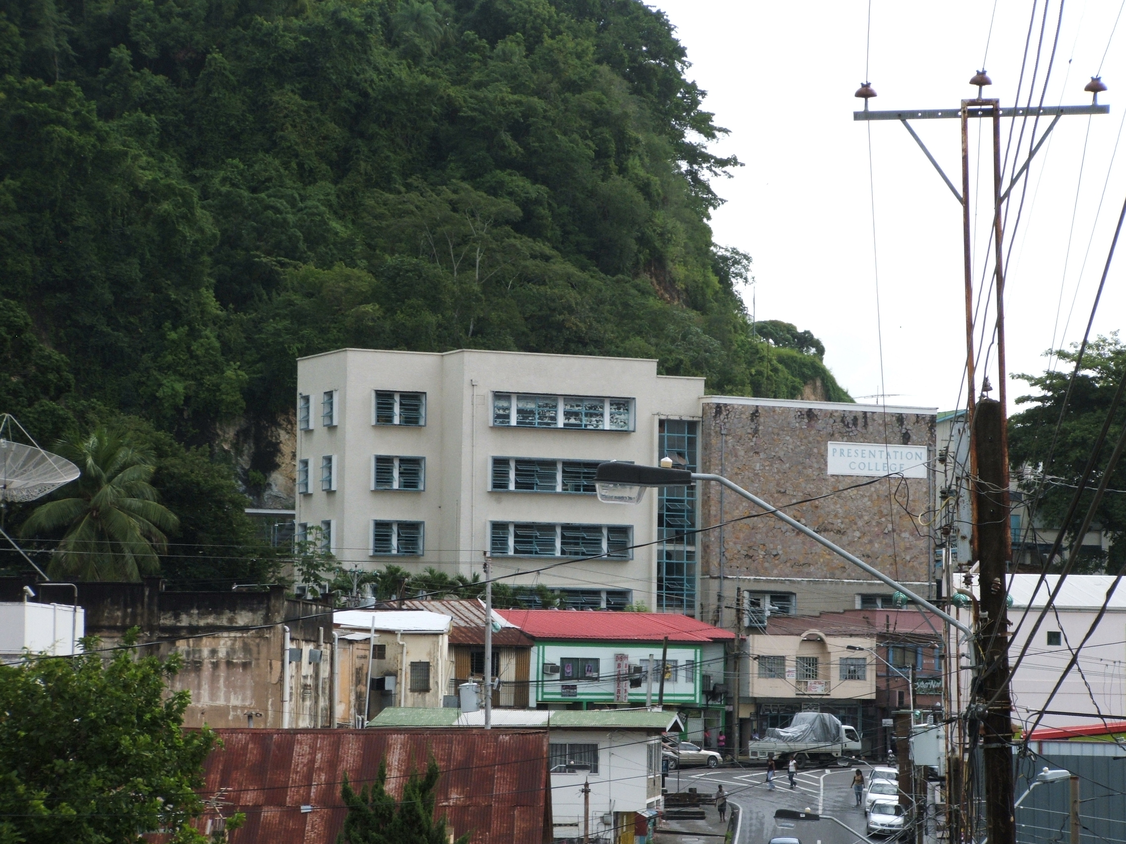 Presentation College, Carib Street, San Fernando, Trinidad & Tobago